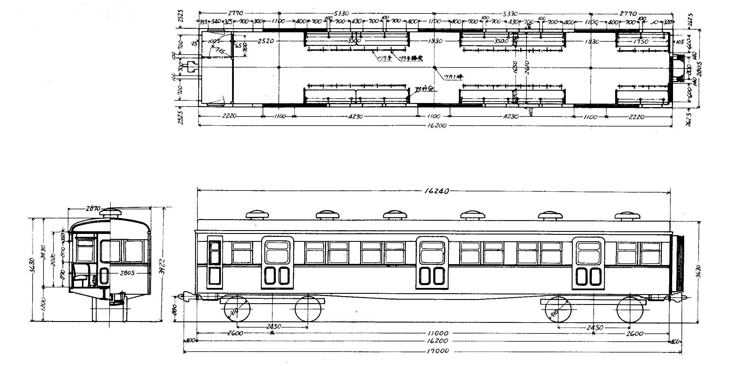 Type drawing of JNR's electric car Kuha16